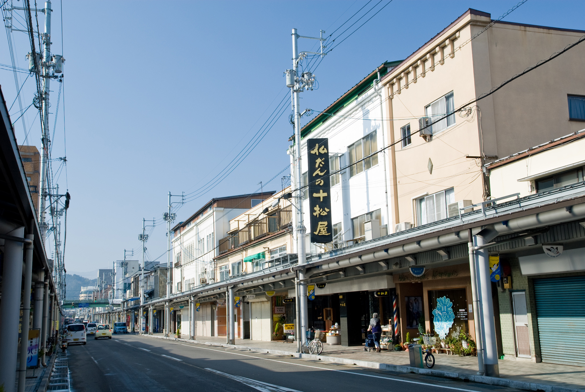 This is a shopping street in Toyooka Hyogo.